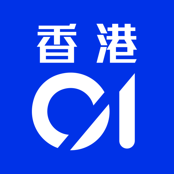 這是2018年9月香港01修正版的logo, 由香港01直接提供